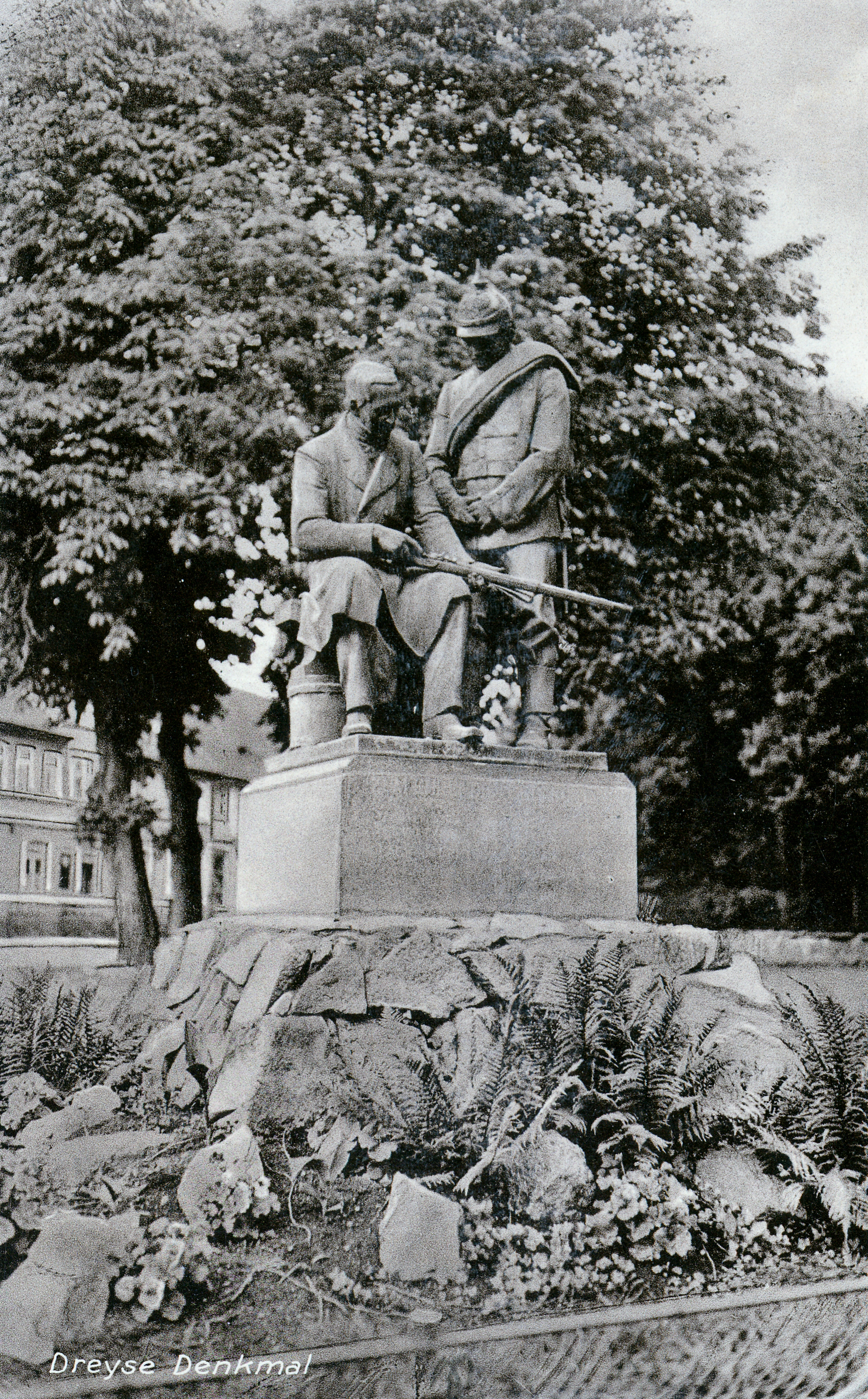 memorial to Johann Nikolaus von Dreyse in Sömmerda, 1909 sculpted by Wilhelm Wandschneider